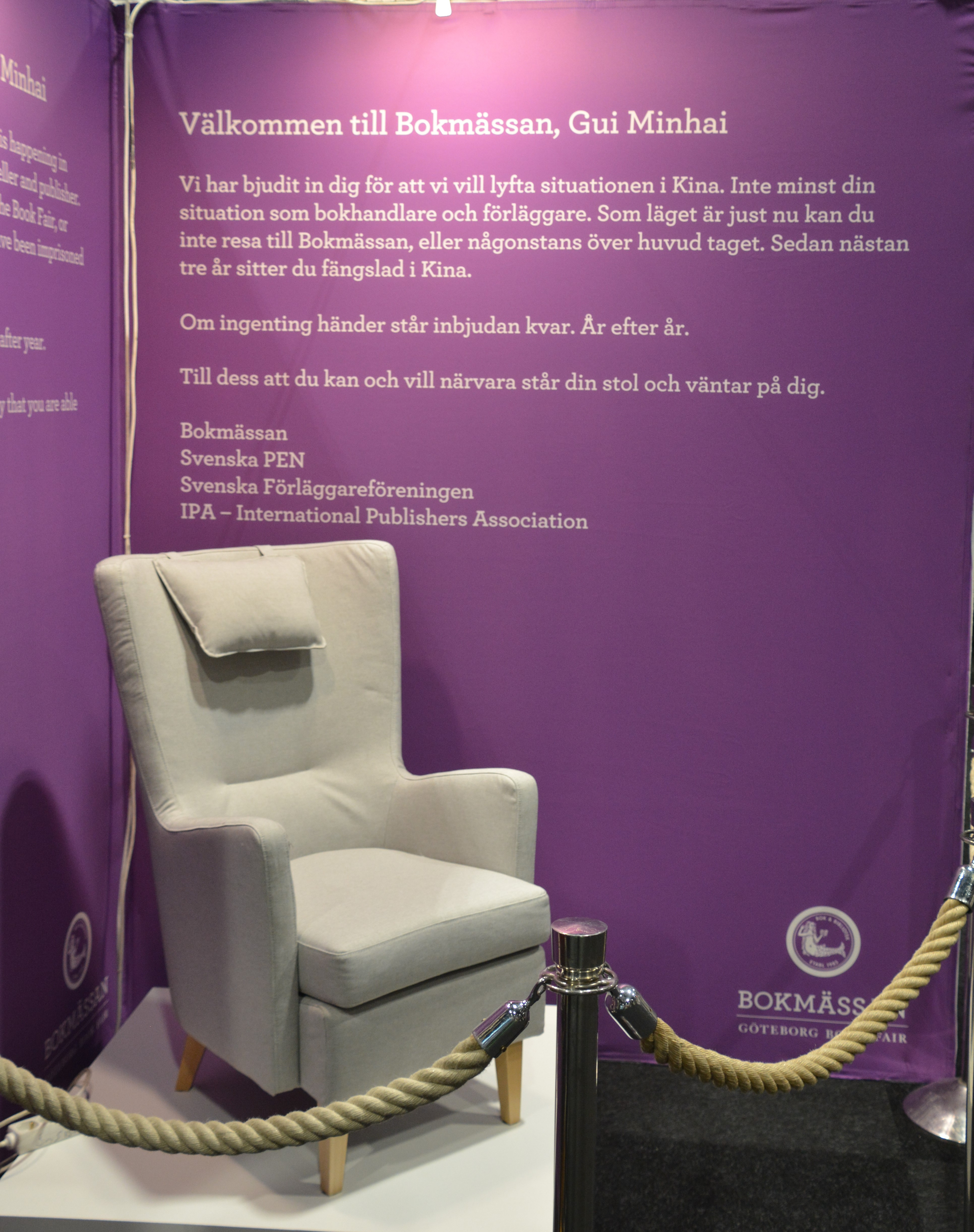 Chair for the disposal of Gui Minhai at the Göteborg Book Fair 2018.